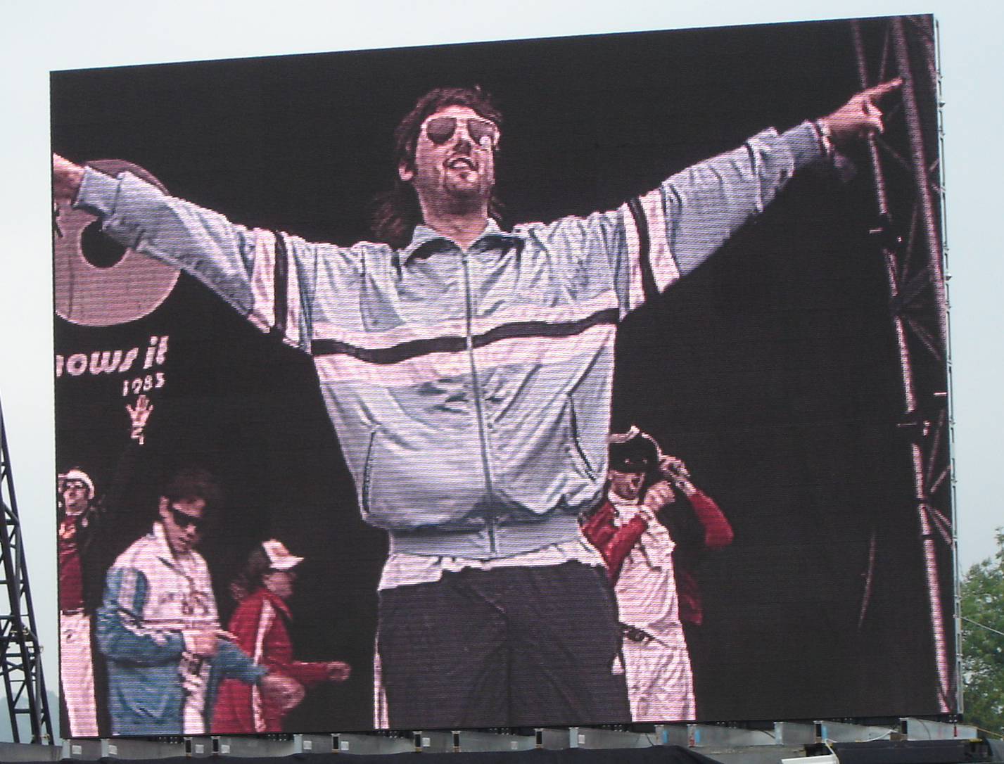 Goldie Lookin Chain at the Pyramid